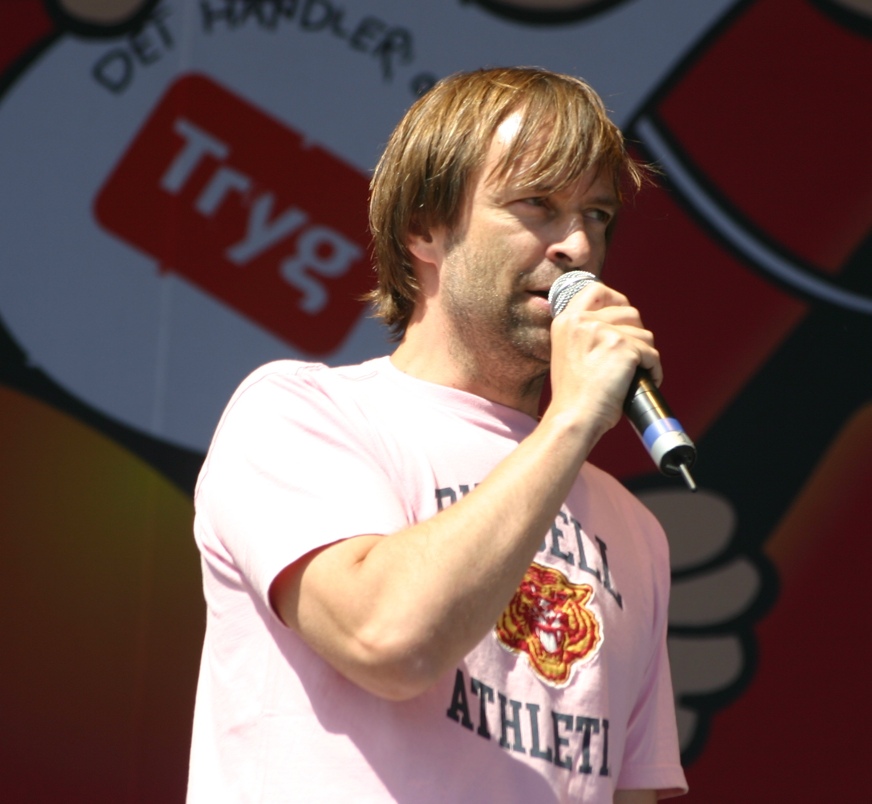 Danish actor and singer Martin Brygmann performing during the "Åh Abe" concerts for children in Århus, Denmark 2006